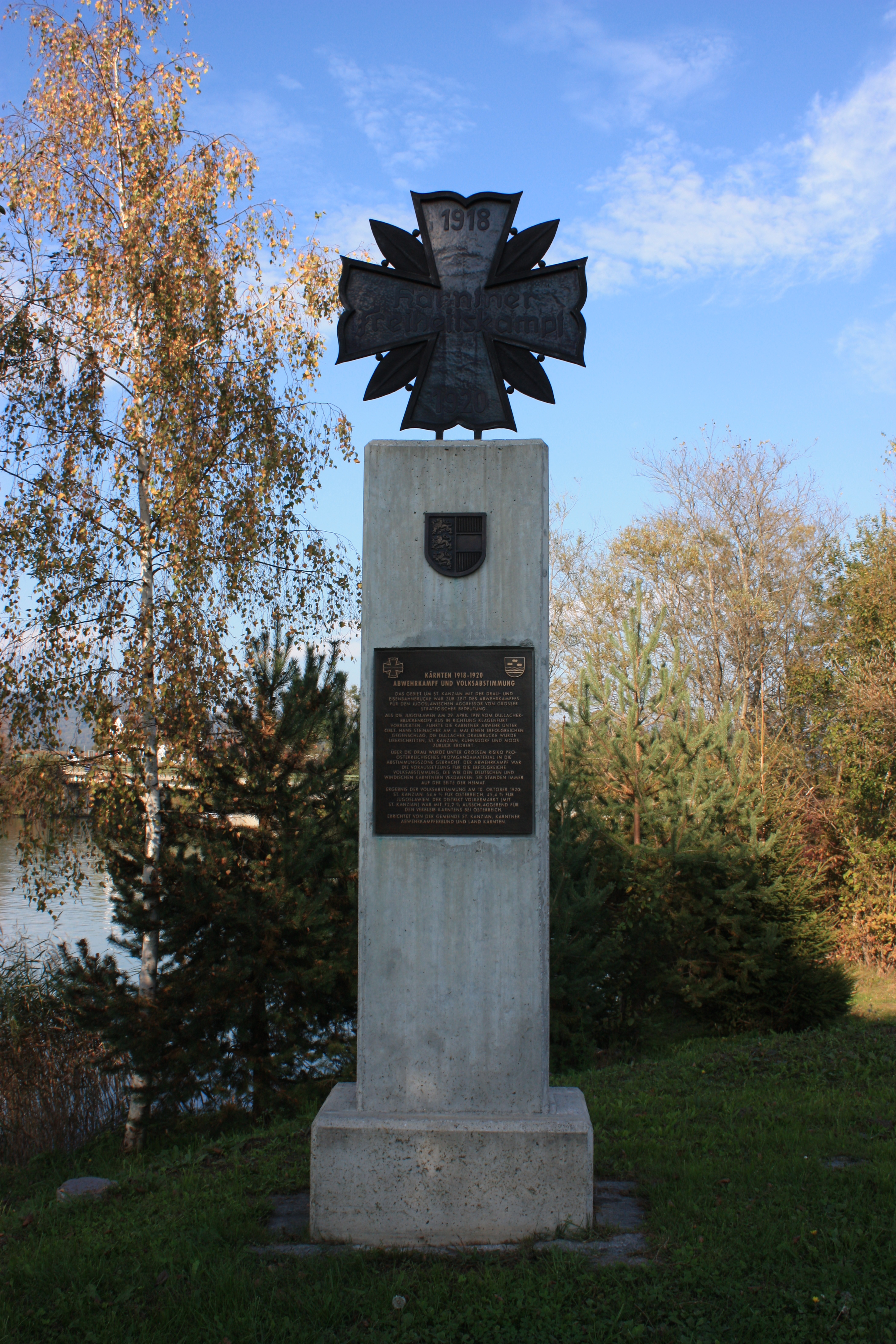 Carinthian Plebiscite-memorial Locality: Seidendorf Community:Sankt Kanzian am Klopeiner See